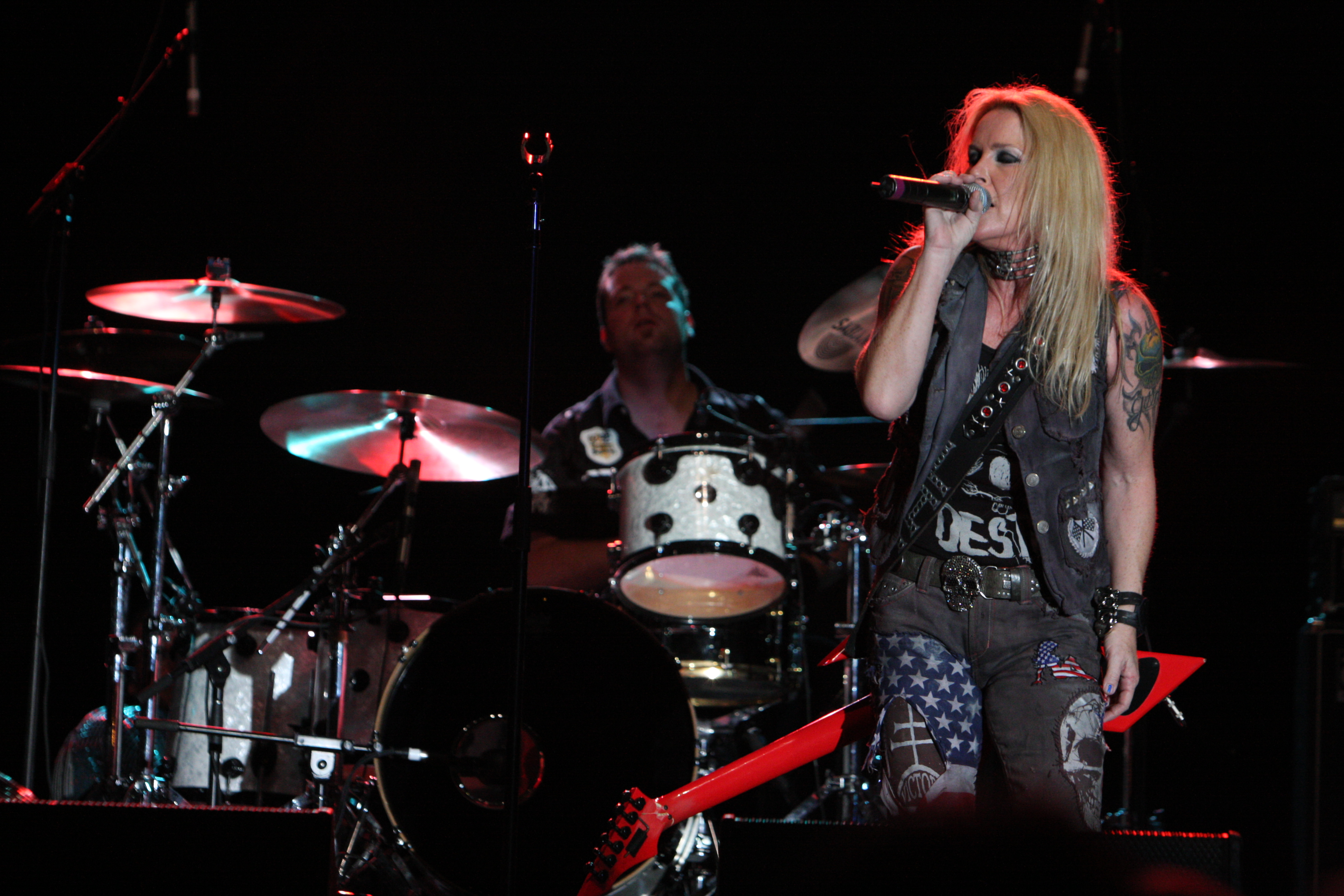 Dennis Leeflang onstage with Lita Ford, Cleveland.